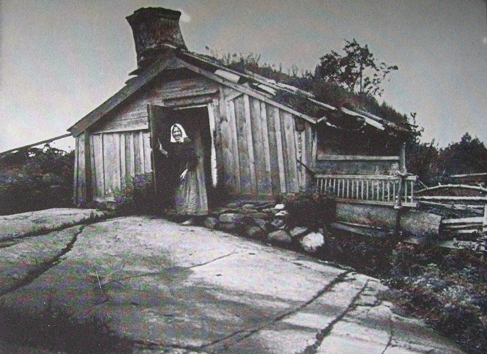 Picture of little cottage in Torsås in Sweden 1904